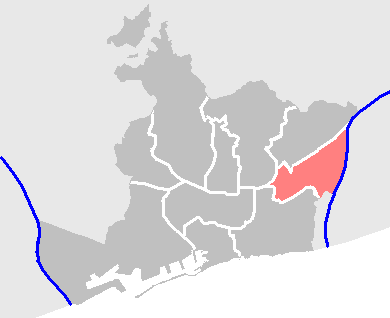 Locator maps of districts/ neighbourhoods in Barcelona: Map - Barcelona - Sant Andreu.PNG